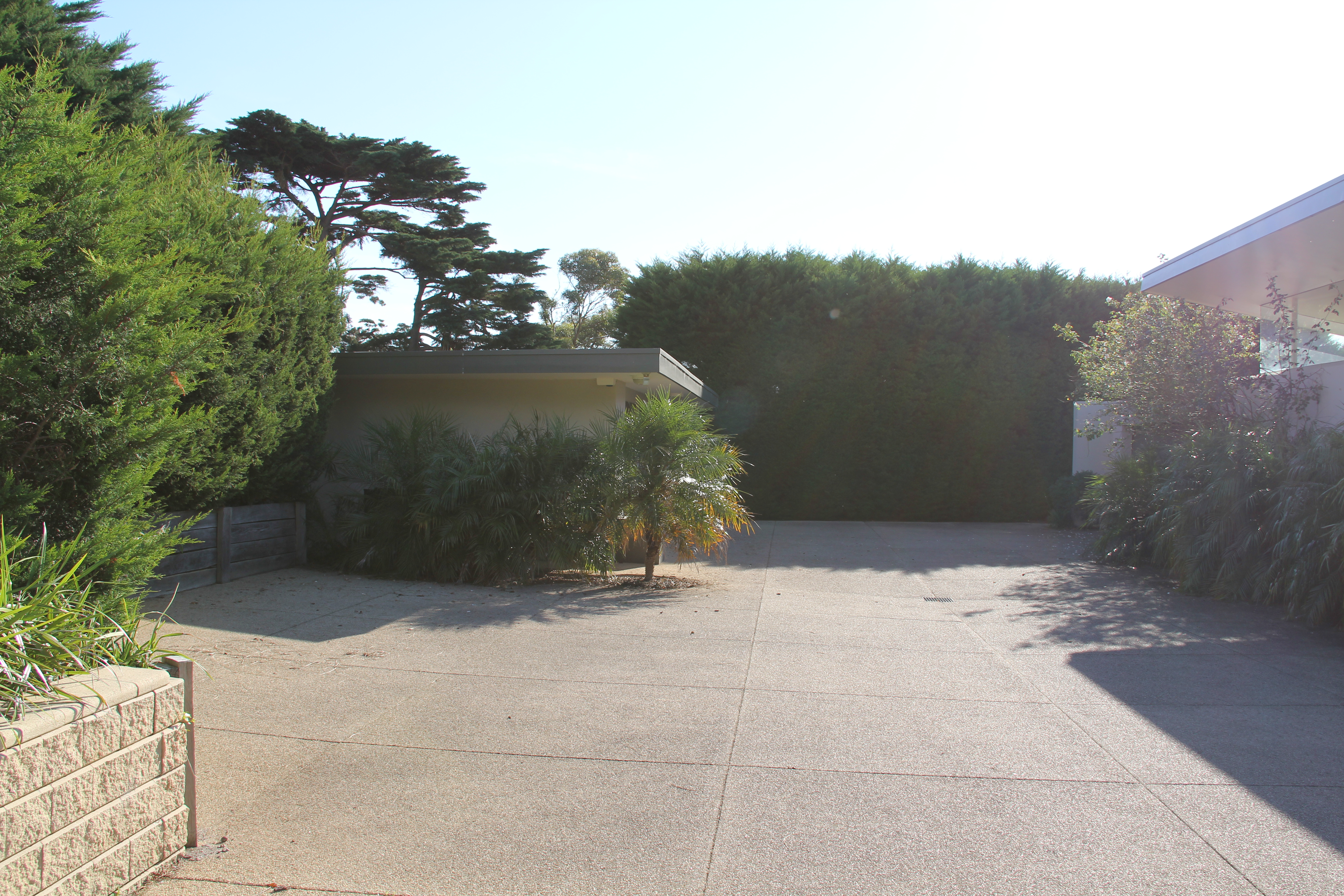 current view of simon house